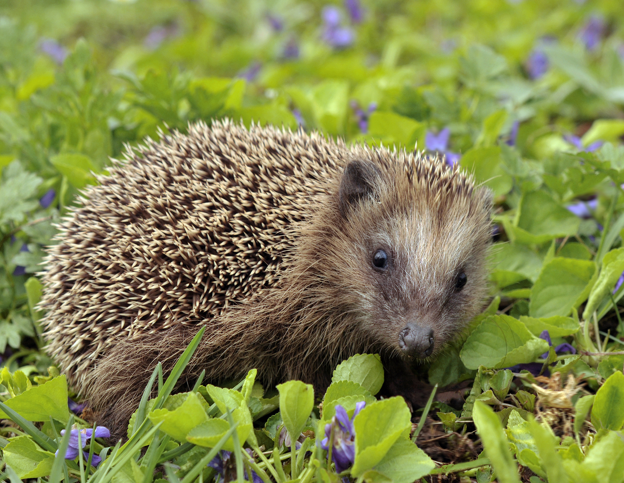 Young European hedgehog (Erinaceus europaeus), or common hedgehog, is a hedgehog species found in northern and western Europe.